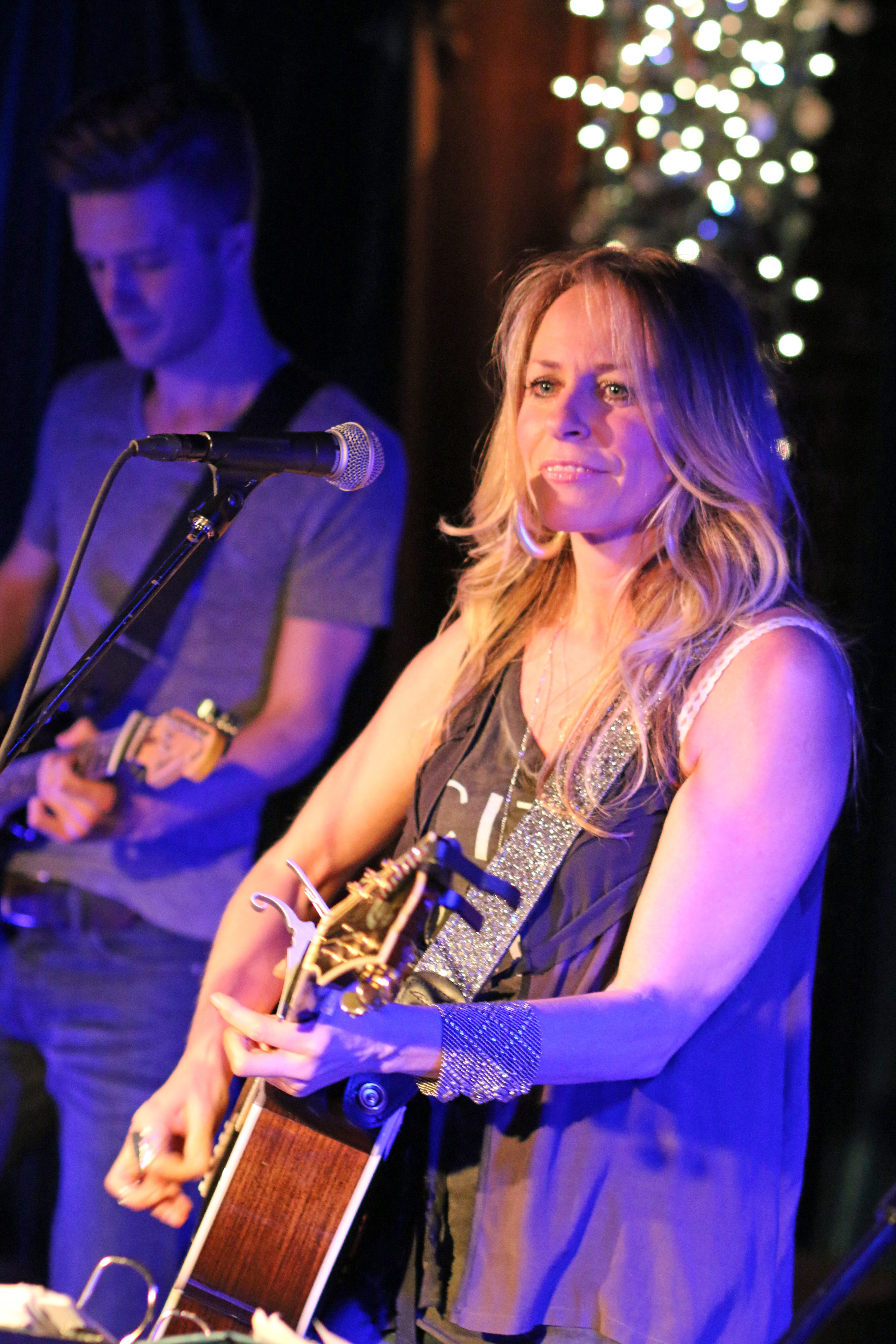 Deana Carter performing at The Basement in Nashville, TN